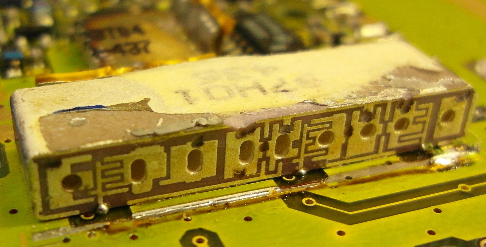 This is an RF dielectric filter from a 1994 vintage Motoroloa mobile phone